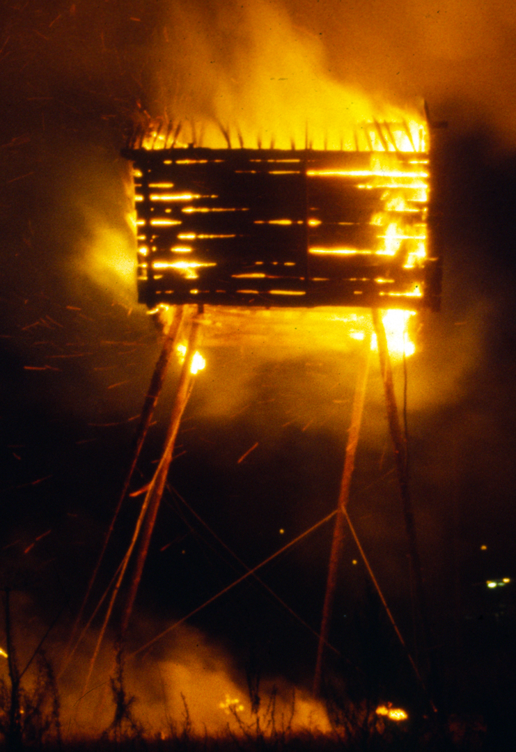 Burning of the Land(e)scape architectural installation by Casagrande & Rintala. Savonlinna, Finland, 1999.